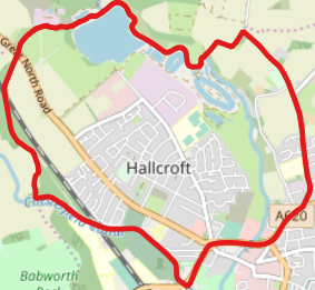 Map of the East Retford North ward of Bassetlaw. This map may be incomplete, and may contain errors. Don't rely solely on it for navigation.